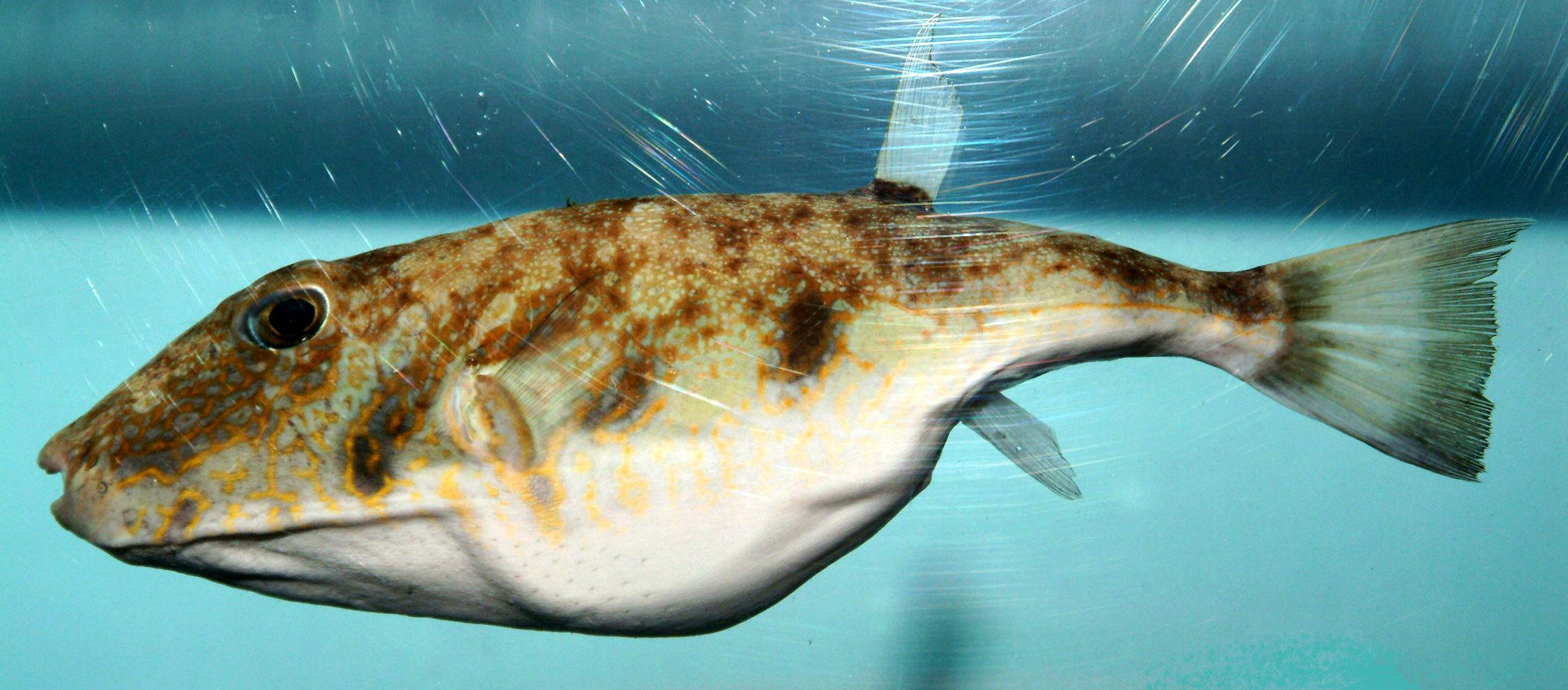 Marbled puffer (Sphoeroides dorsalis) from the Gulf of Mexico